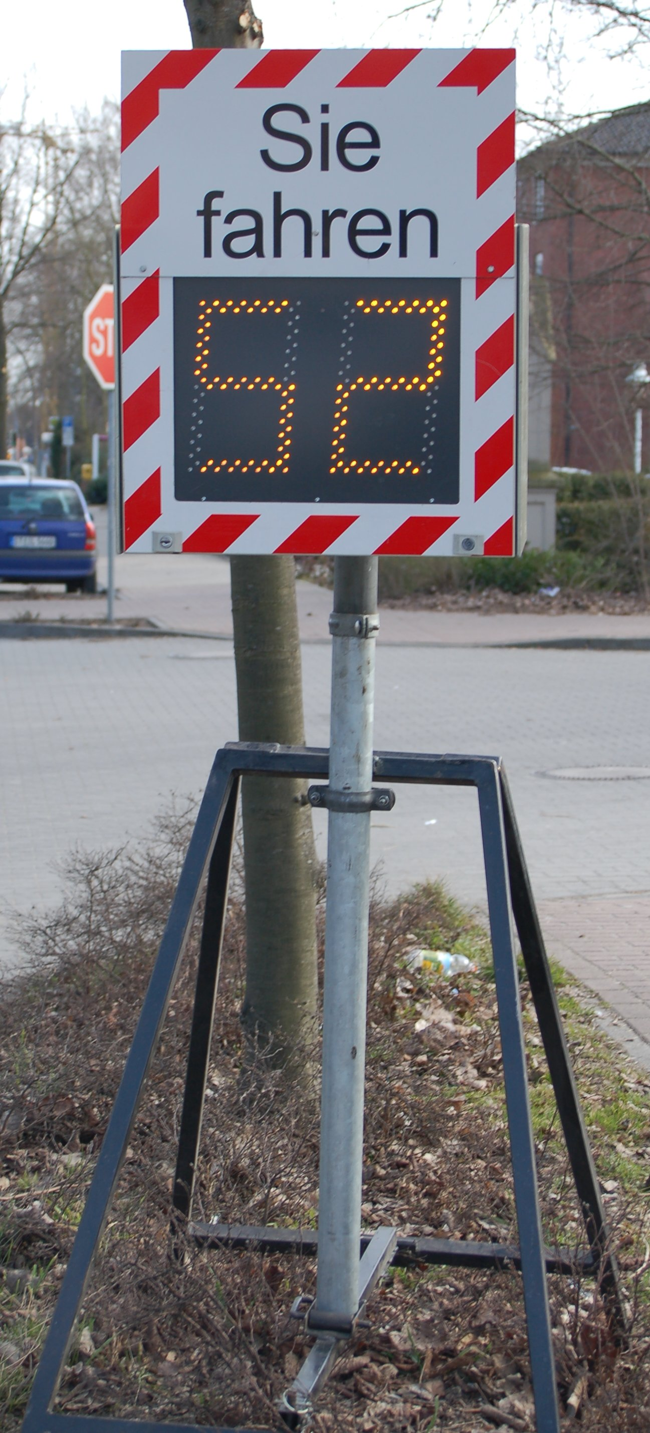 A speed meter display, that shows the actual speed for warning reasons